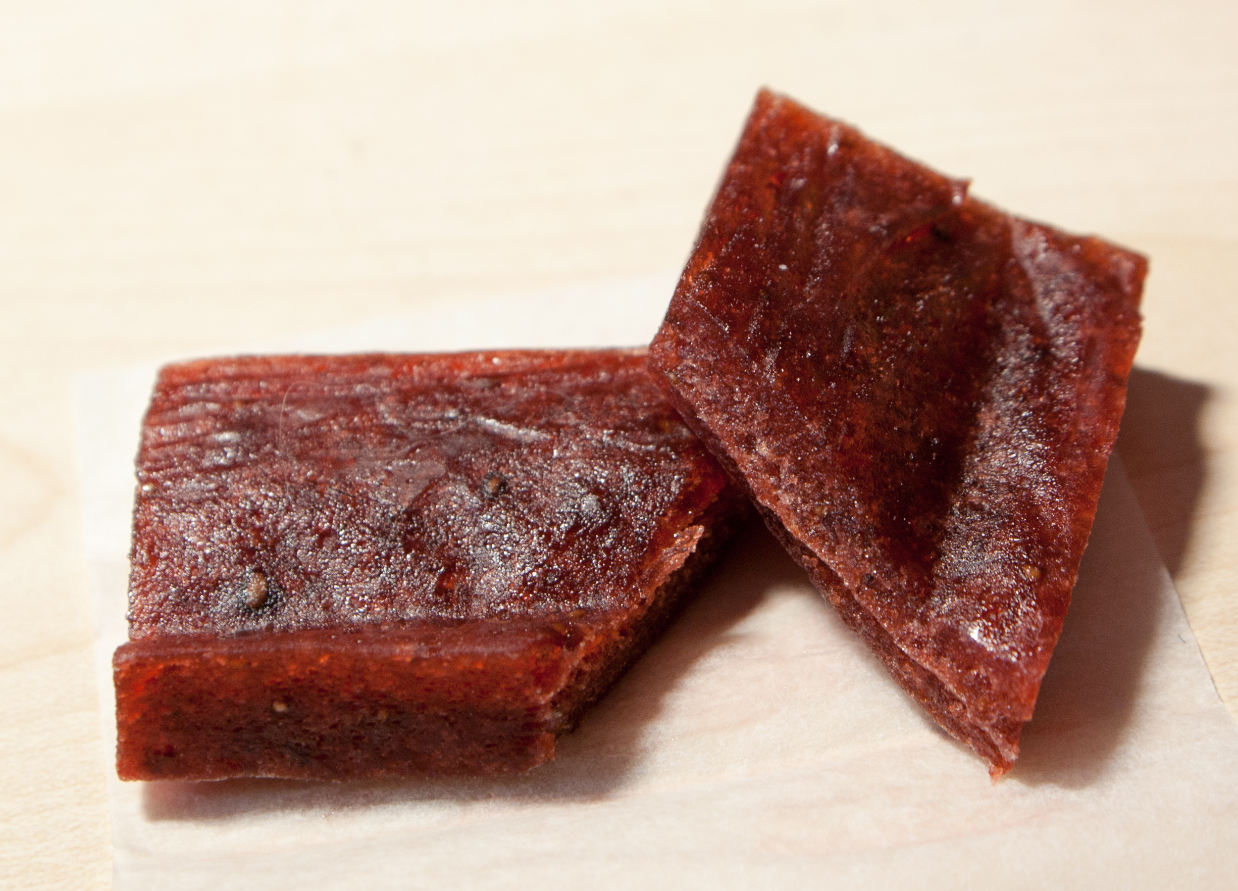 Kolomna pastila